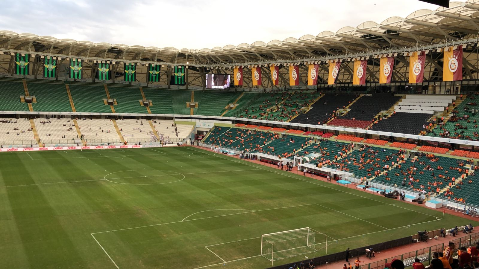 Akhisar Belediyespor vs Galatasaray, 5 August 2018 (2018 Turkey Super Cup)